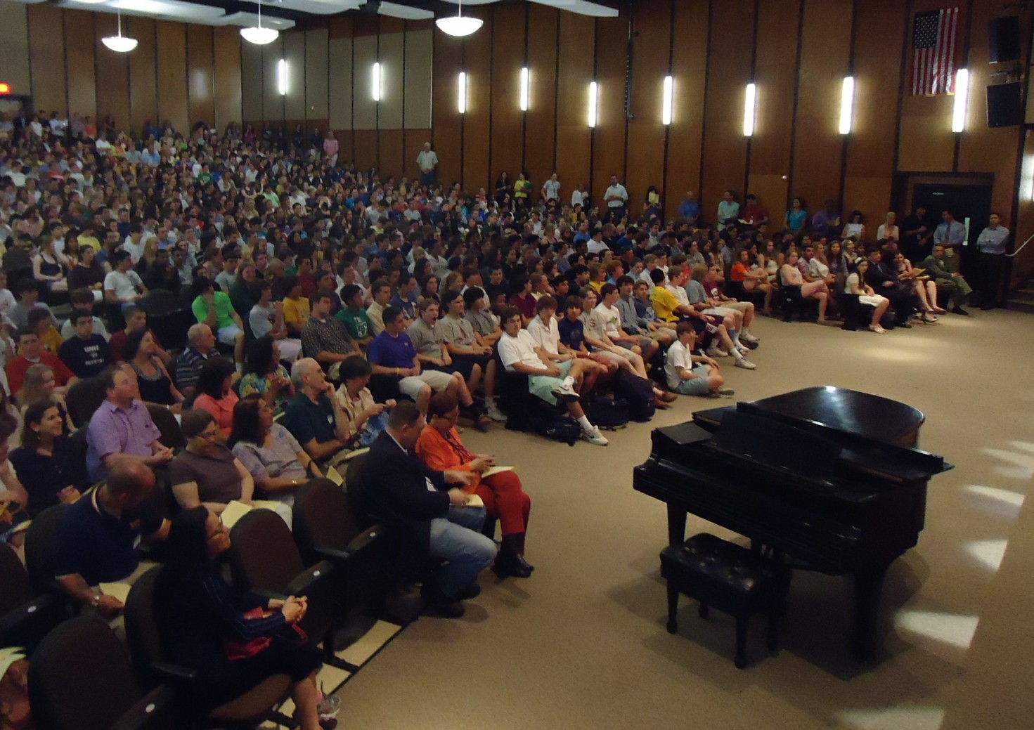 Students at Summit High School assembled in the auditorium to attend the annual springtime awards presentation.